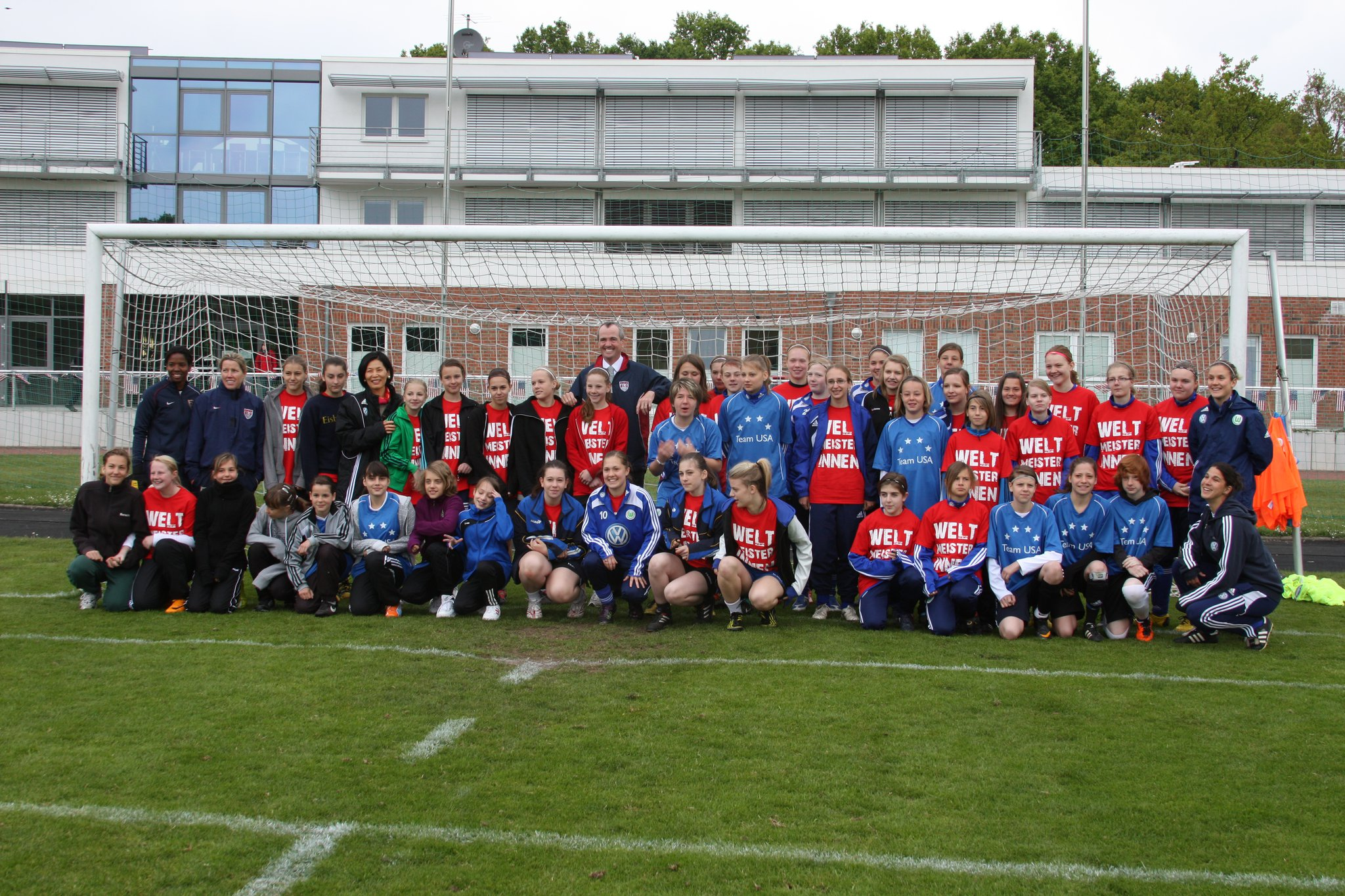 U.S. Ambassador to Germany Philip D. Murphy poses with school teams from a Lower Saxony project called “Social Integration for Girls through Soccer" in Wolfsburg, Germany, on July 6, 2011. [State Department photo by Heiko Herold/ Public Domain